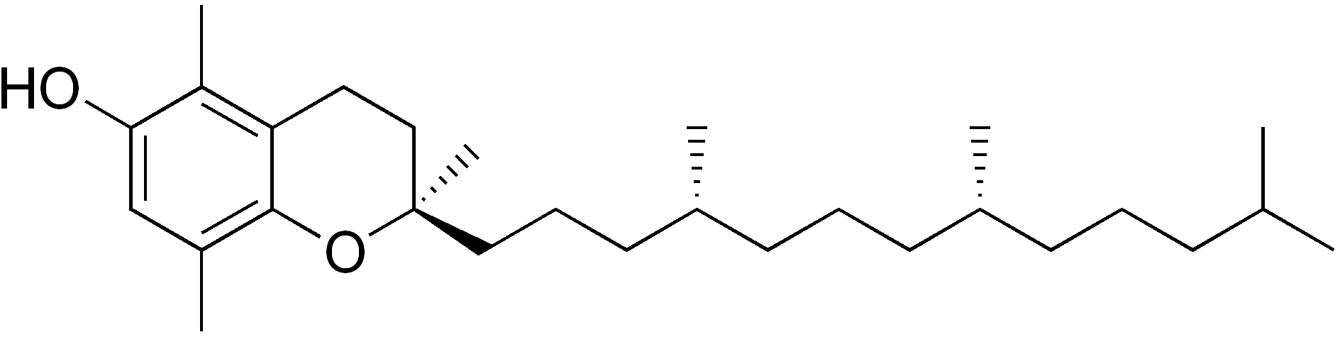 chemical structure of beta-tocopherol (vitamin E beta)